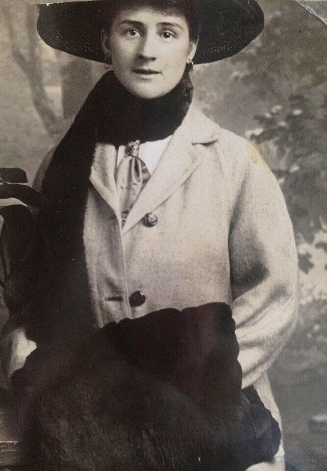 portrait photo of Cumann na mban member, Lucy Agnes Smyth